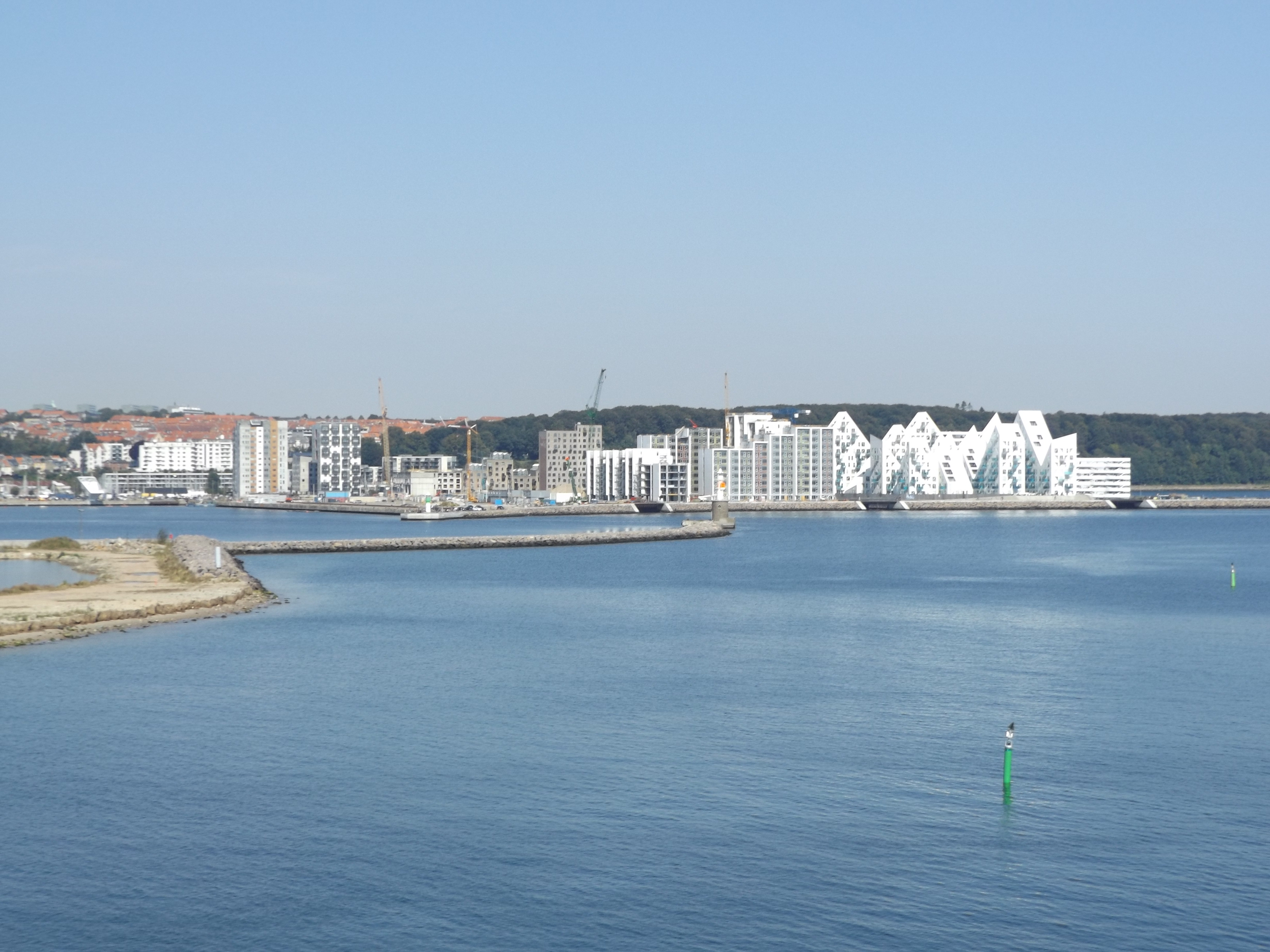 View of Aarhus Ø